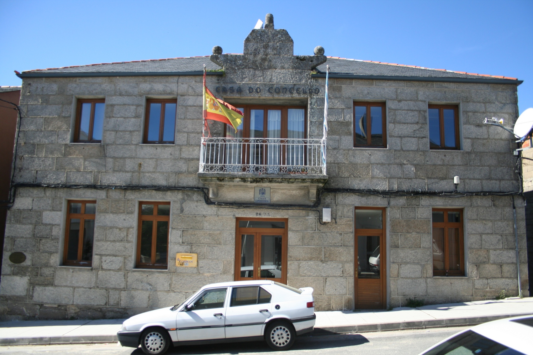 Town Hall in O Bolo (Spain)